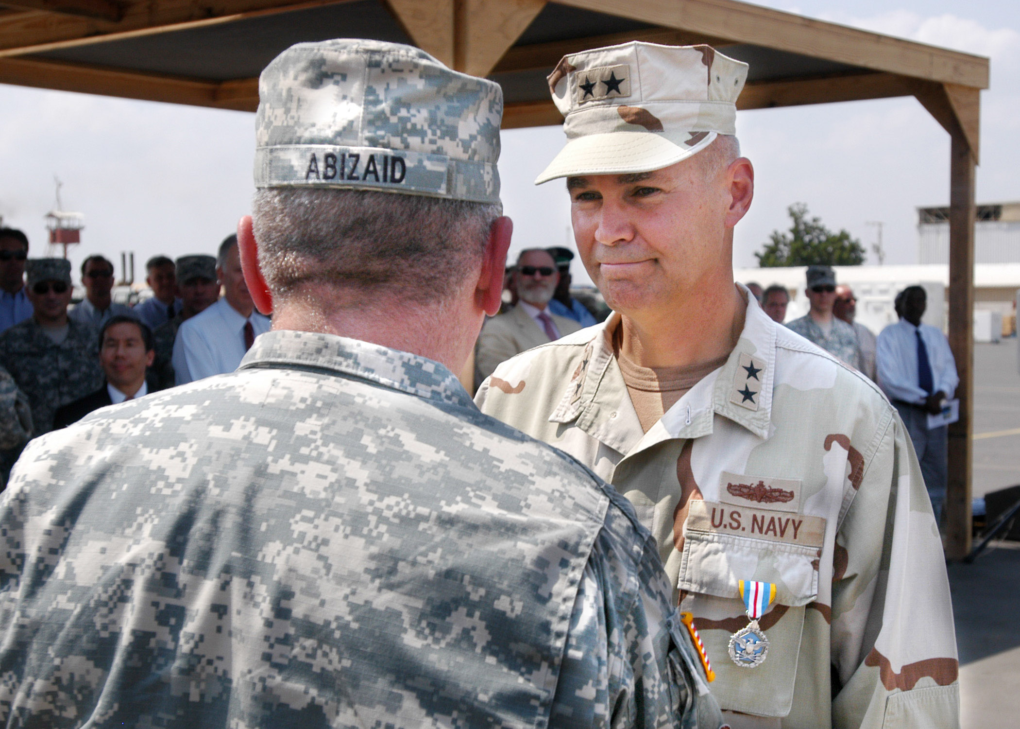 Camp Lemonier, Djibouti (Feb. 14, 2007) - U.S. Navy Rear Adm. Richard Hunt receives the Defense Superior Service Medal for his tour as Commander, Combined Joint Task Force-Horn of Africa (CJTF-HOA) from Commander, U.S. Central Command, U.S. Army Gen. John Abizaid, during Combined Joint Task Force-Horn of Africa change of command ceremony. CJTF-HOA is a unit of United States Central Command. The organization's mission is to prevent conflict, promote regional stability and protect Coalition interests in order to prevail against extremism. U.S. Navy photo by Chief Mass Communication Specialist Eric A. Clement (RELEASED)